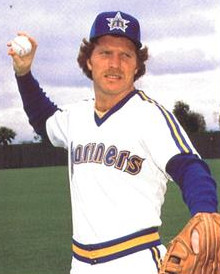 Professional baseball player Dave Edler